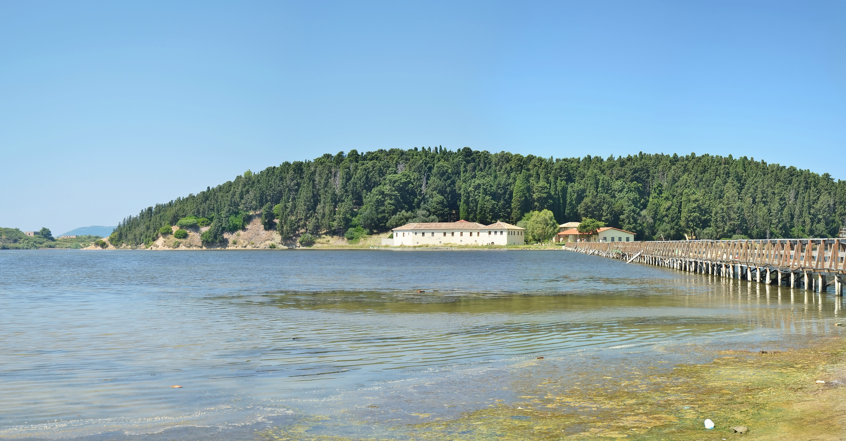 Zvernec monastery, Albania